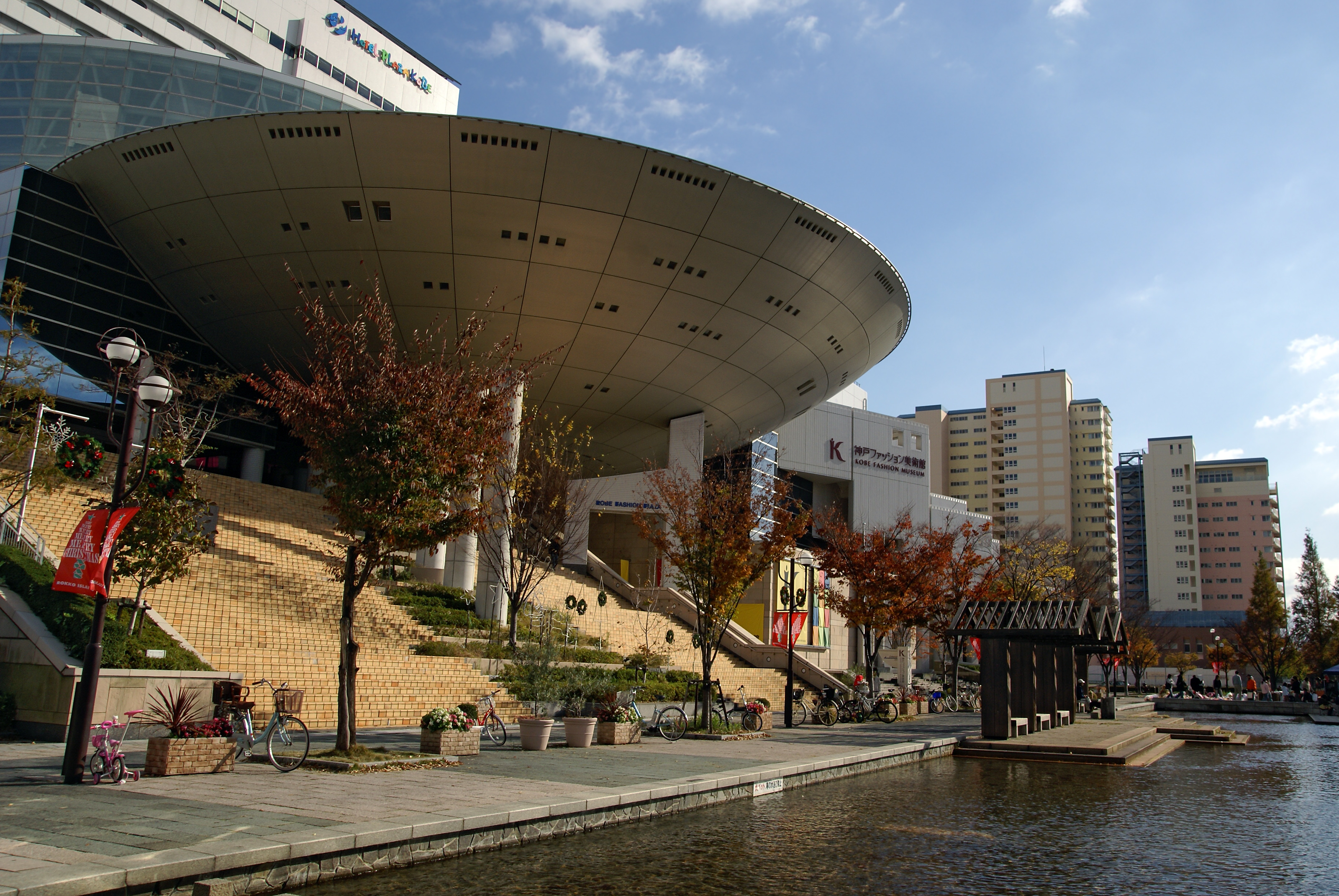 Kobe Fashion Museum in Rokko Island, Kobe, Hyogo, Japan